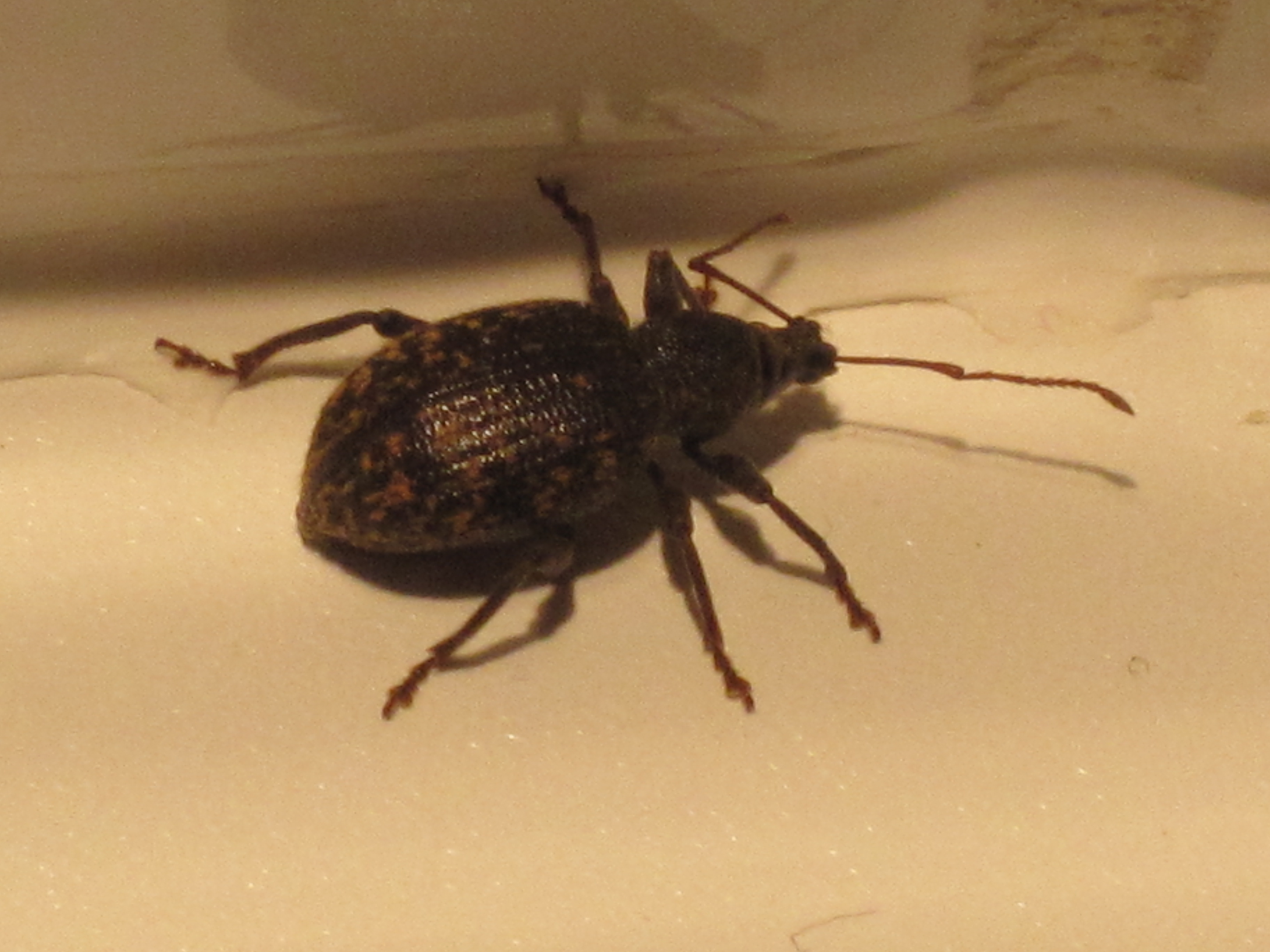 Otiorhynchus sulcatus (Black vine weevil), Arnhem, the Netherlands